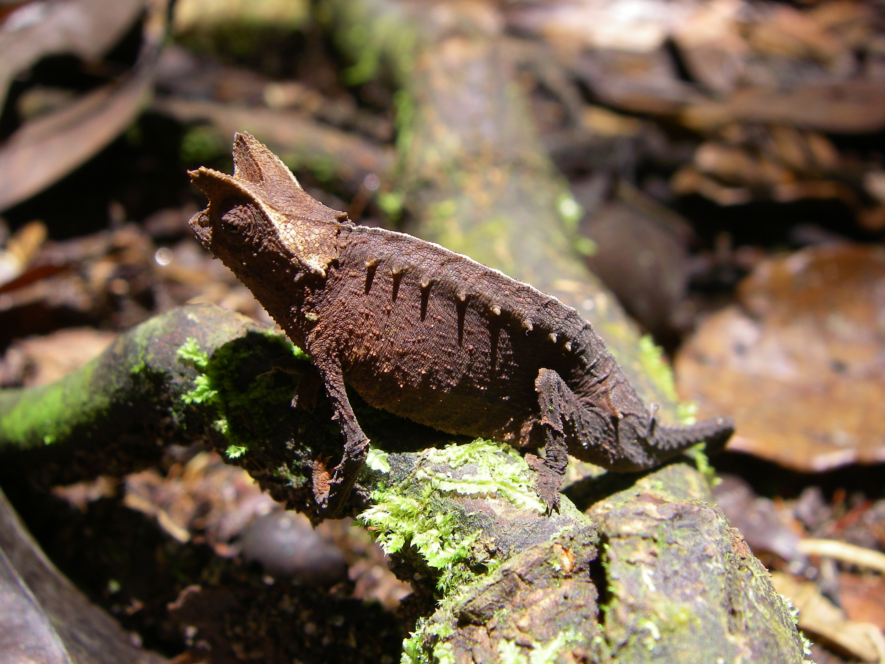 Brookesia superciliaris (Chamaeleonidae, Brookesiinae); Ranomafana National Park